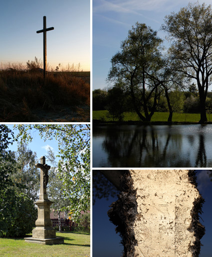 Cross in Dukovany